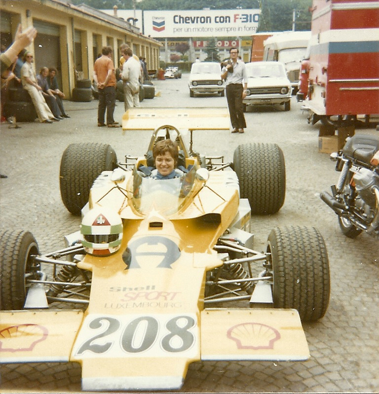 Lella Lombardi, Lola T330, Monza round of the 1974 Rothmans 5000 European Championship. Refer Rothmans F5000 Championship round, Monza, 30 Jun 1974